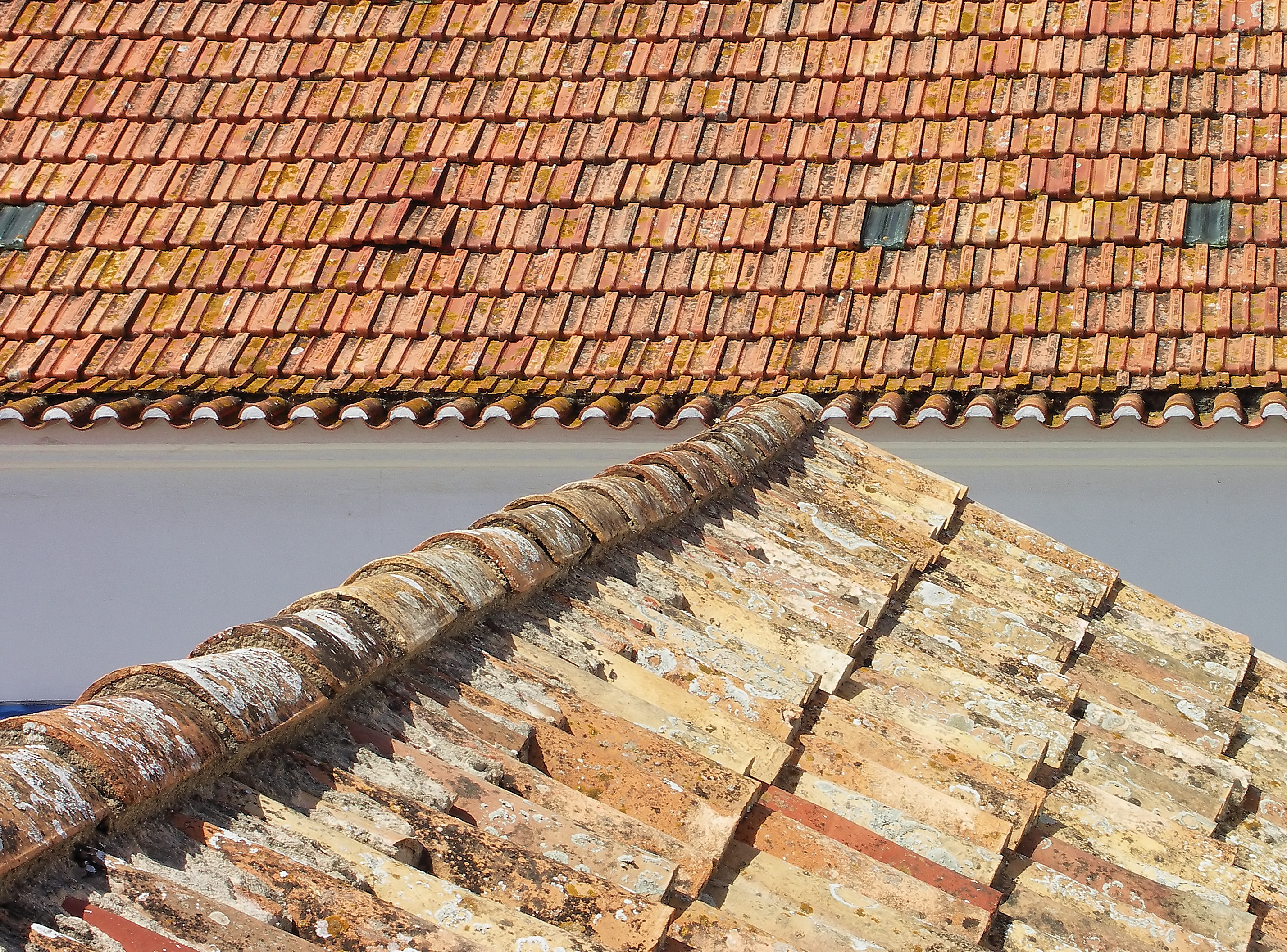 Portuguese roofs showing the two types of tiles still in use: the tradicional (foreground) and the modern F/10, 1/100, ISO 80